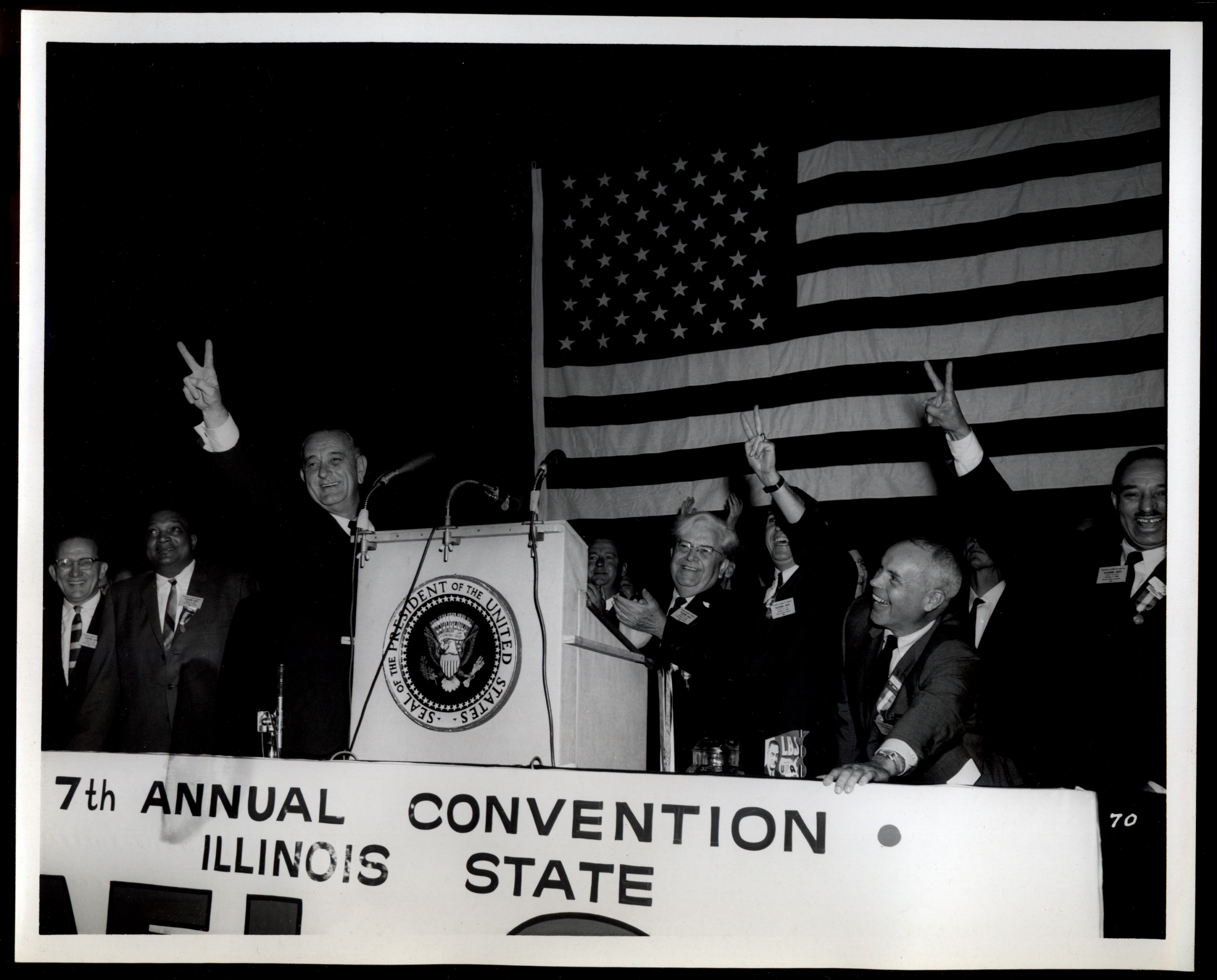 President Johnson speaks to the delegates of the Illinois AFL-CIO